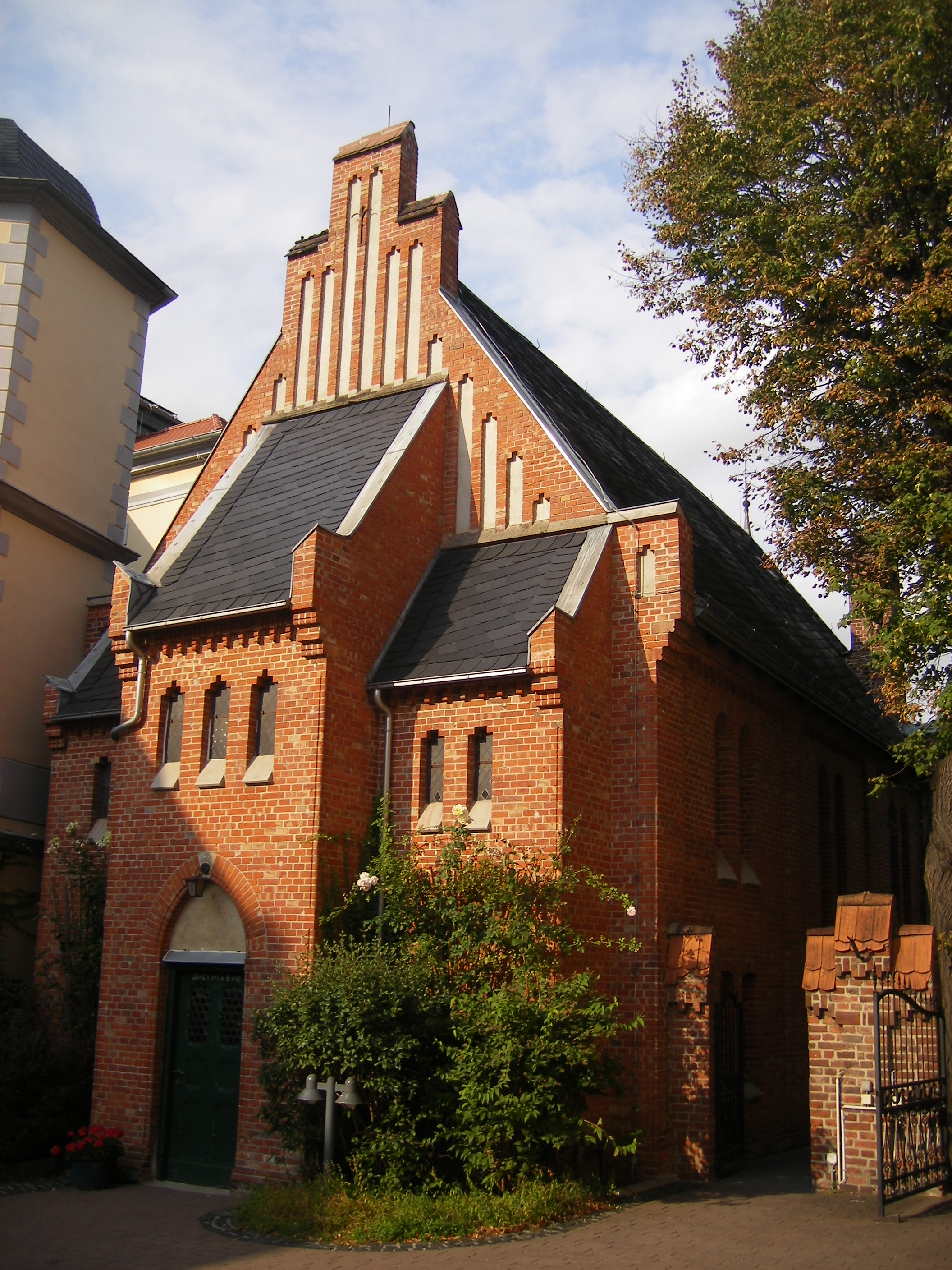 Church of Magdalenenstift in Altenburg/Thuringia